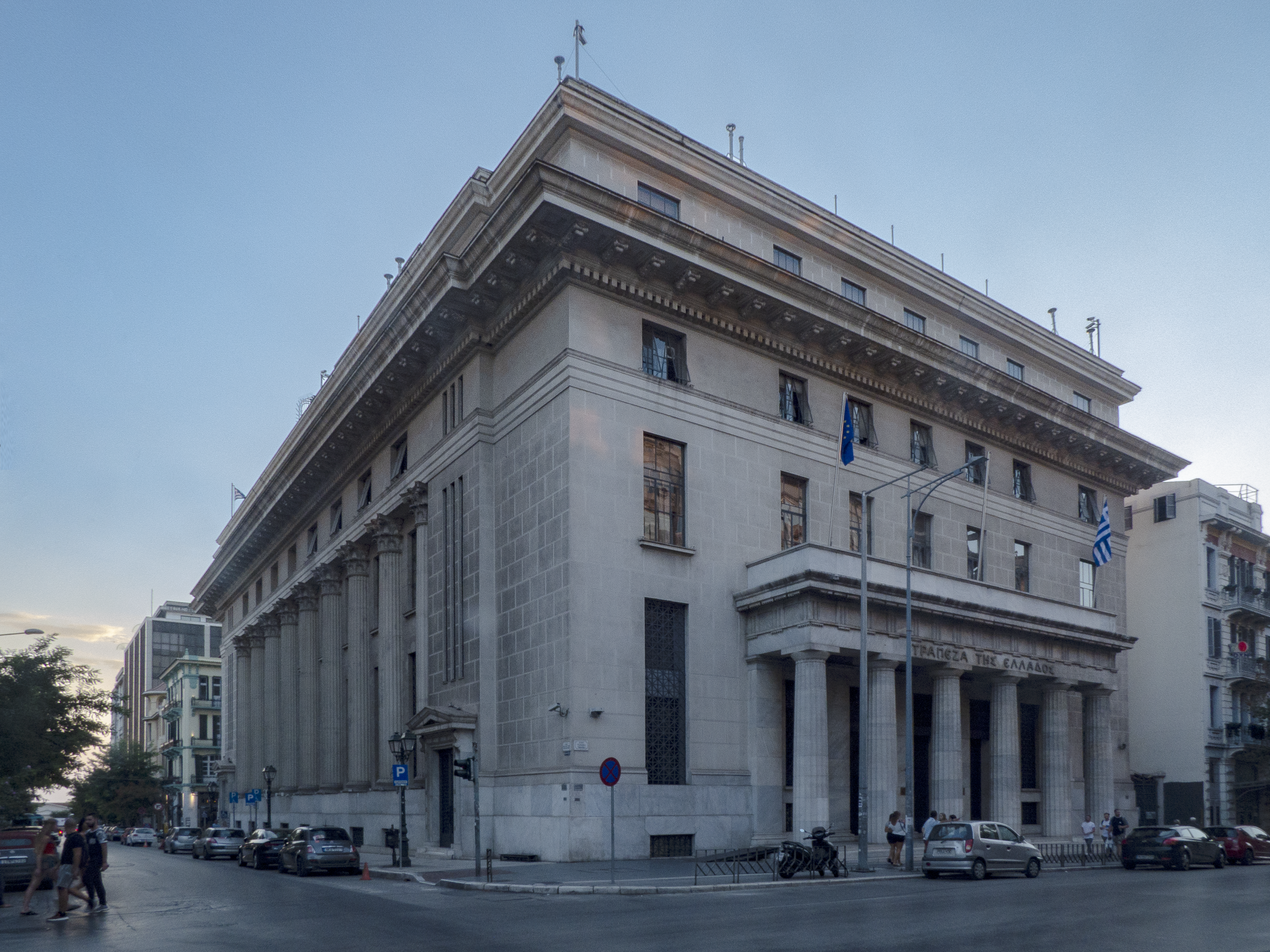 Building of the Bank of Greece and National Bank of Greece in Thessaloniki, 15 September 2018